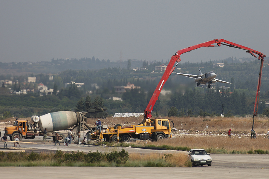 Russian Sukhoi Su-24 at Latakia